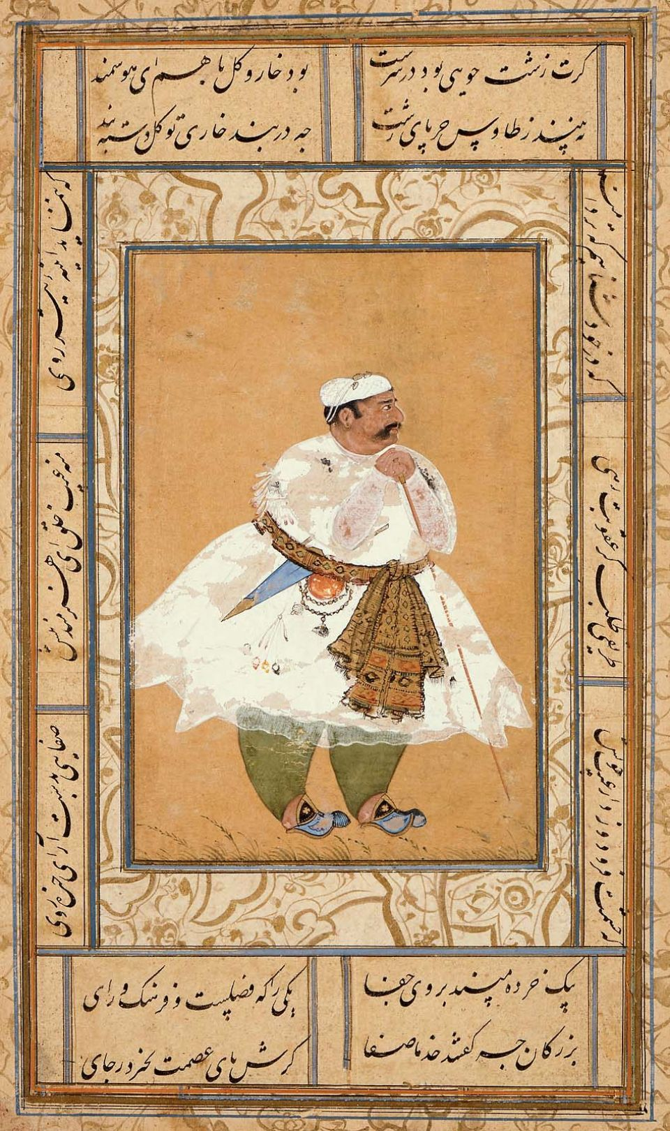 Portrait of Mota Raja Udai Singh of Jodhpur